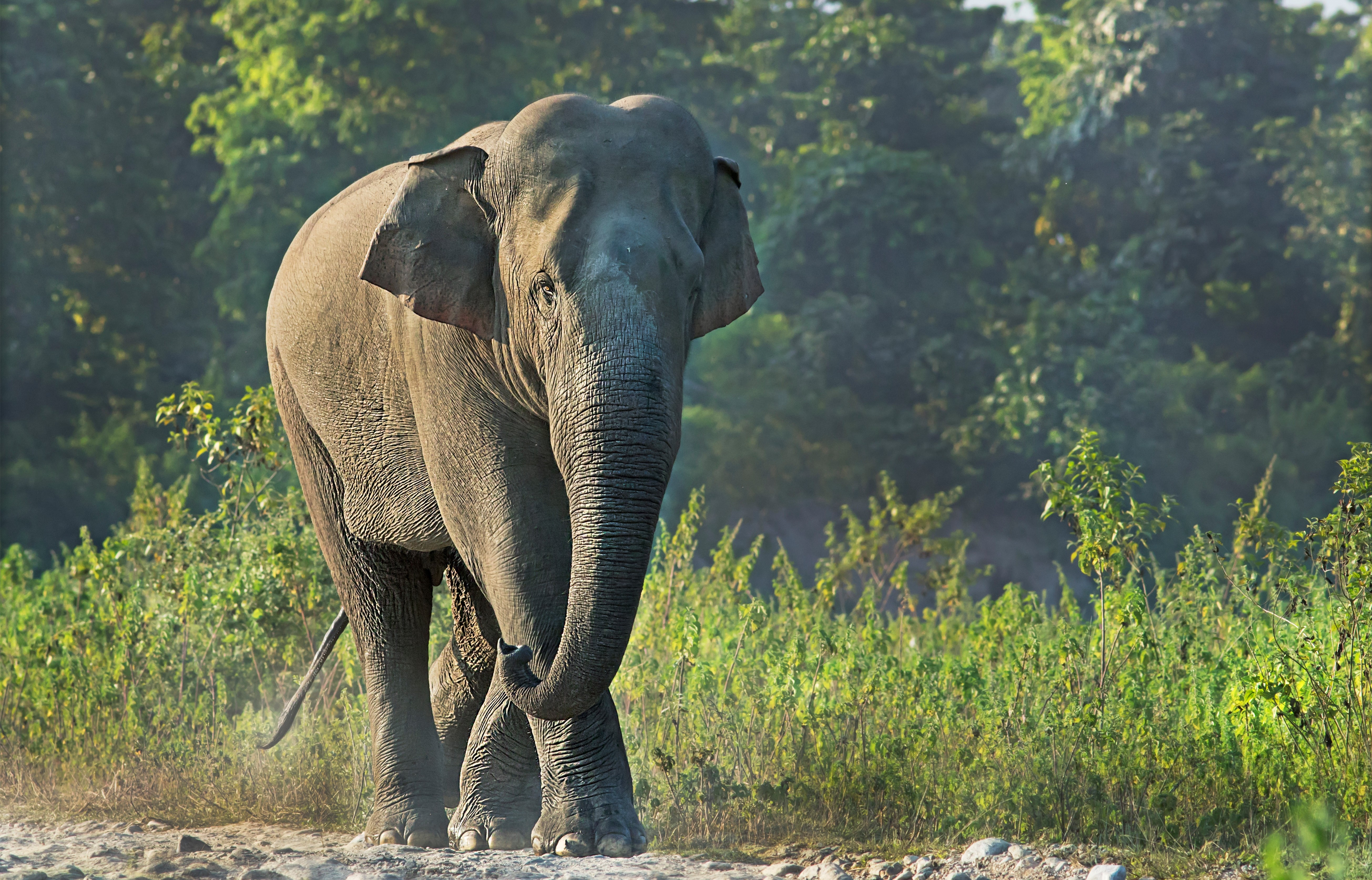 Dominating fauna